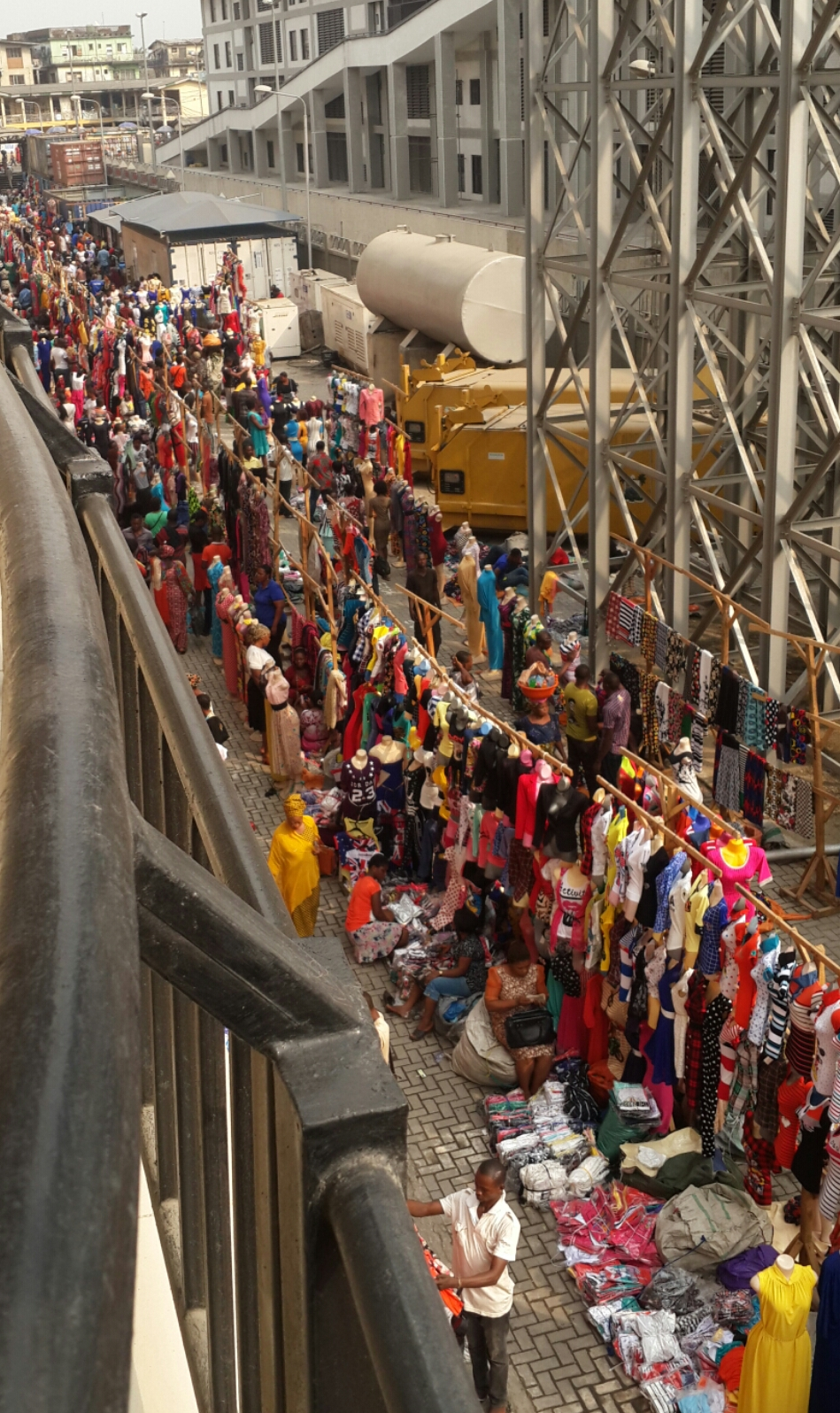 This is the Early morning Trade fair in The Main Tejuosho Market in Lagos, Nigeria. The market starts at 5 am and runs till noon everyday, as it showcases the dynamic spirit of Lagos Traders. This is an image of "African people at work" from Nigeria